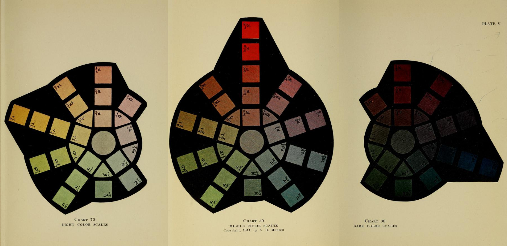 Plate V from Munsell's book A Color Notation shows different levels of chroma